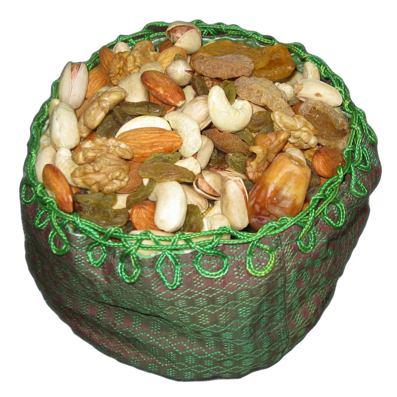 LORK, Kind of nuts for religious ceremonies Zoroastrian